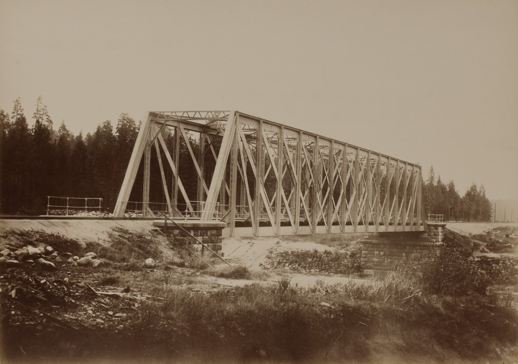 Railway bridge over the Gauja River